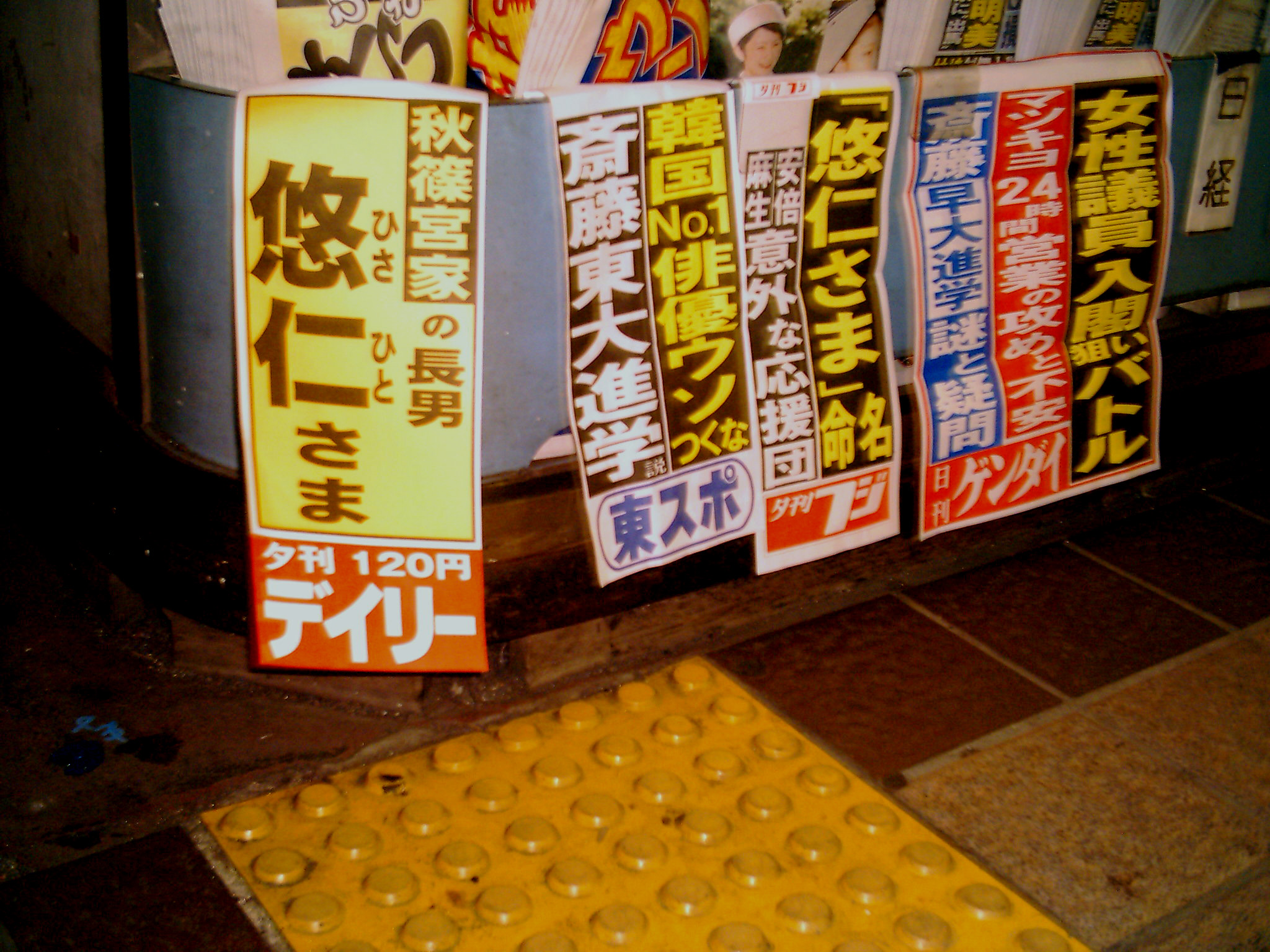 Japanese newspapers in Tokyo announcing the birth of the third in line, Prince Hisahito of Akishino, in September 2006.